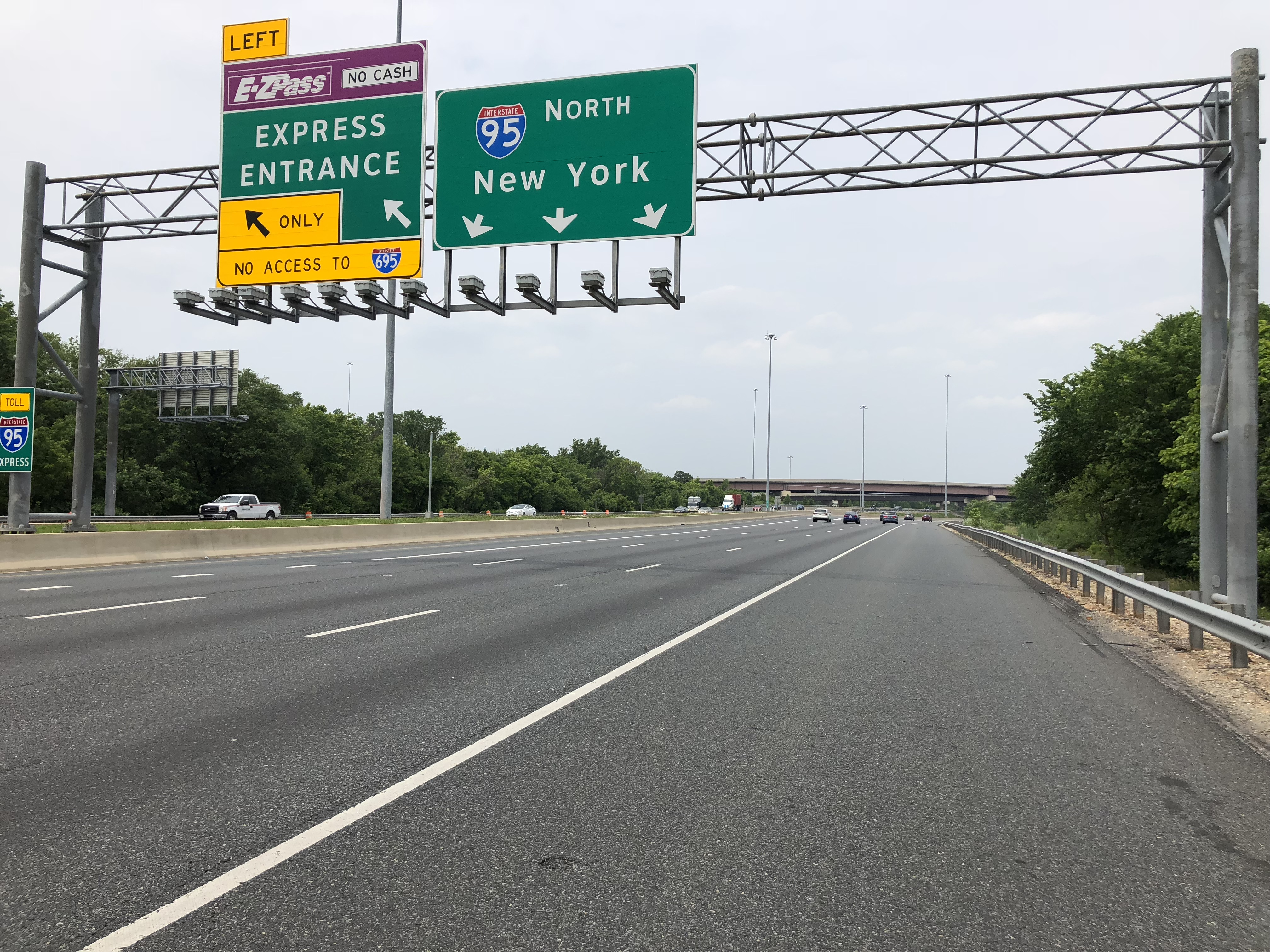 View north along Interstate 95 at the Express Lanes entrance in Baltimore City, Maryland